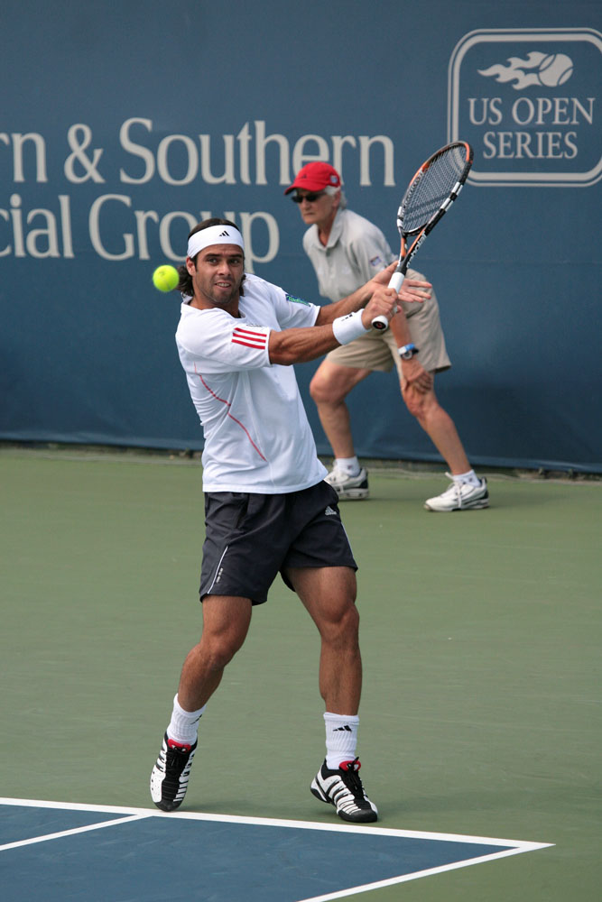 2006 Western & Southern Financial Group Masters Cincinnati, Ohio